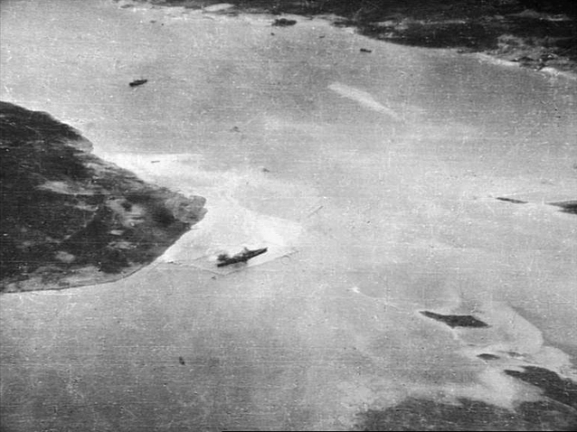 TROMSO FIORD, NORWAY. 1949-11-12. THE 45,000 TON GERMAN BATTLESHIP TIRPITZ IN THE FIORD SURROUNDED BY AN ANTI-TORPEDO BOOM BEFORE THE ATTACK BY LANCASTERS OF NO. 9 AND NO. 617 SQUADRON RAF, WITH 12,000 POUND BOMBS.